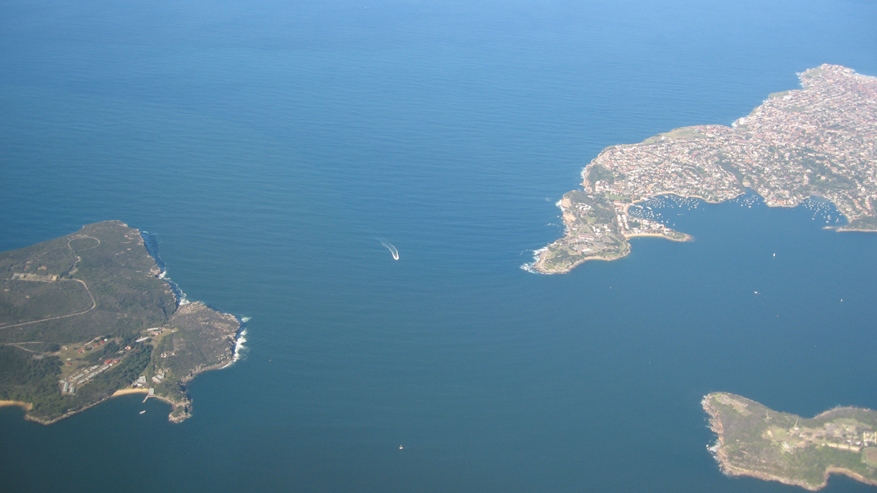 Aerial photograph of the opening of Sydney Harbour into the Tasman Sea, looking SouthEast. North Head is at left, South Head at upper right, Middle Head at lower right.